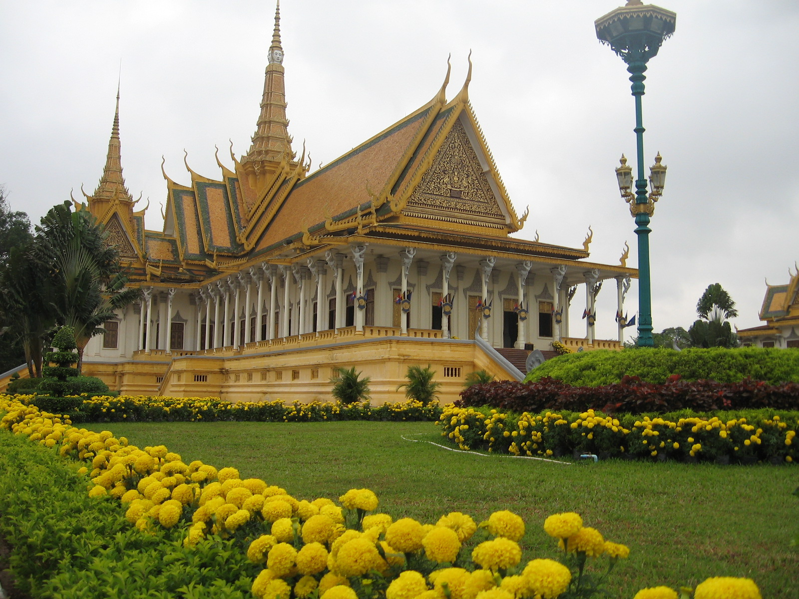 Cambodia's royal palace is often filled with flowers on the major holidays